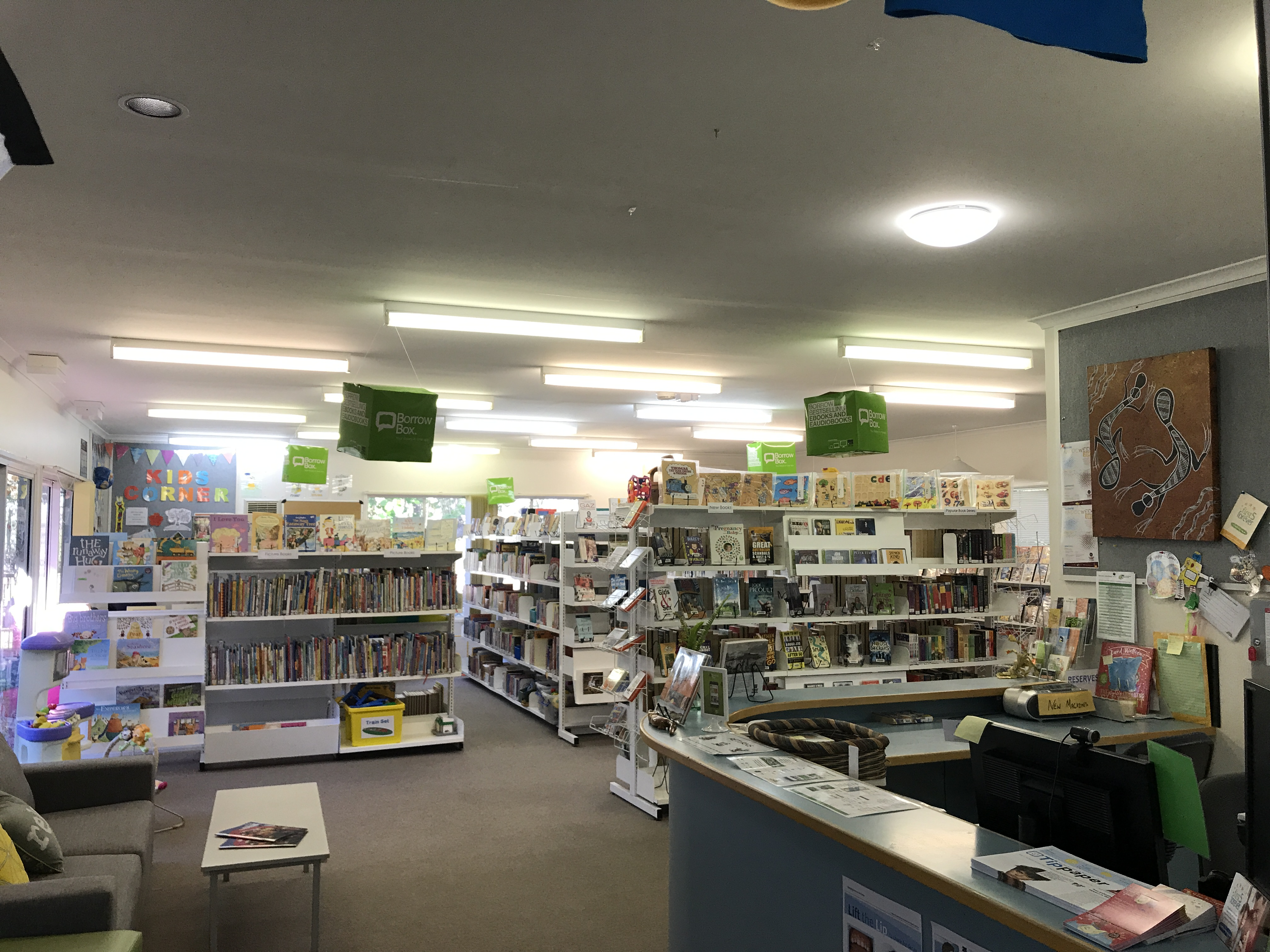 Interior of Tieri Library, 2017